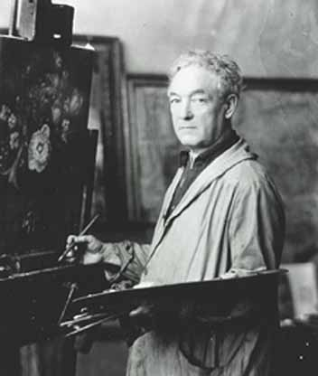 William Glackens